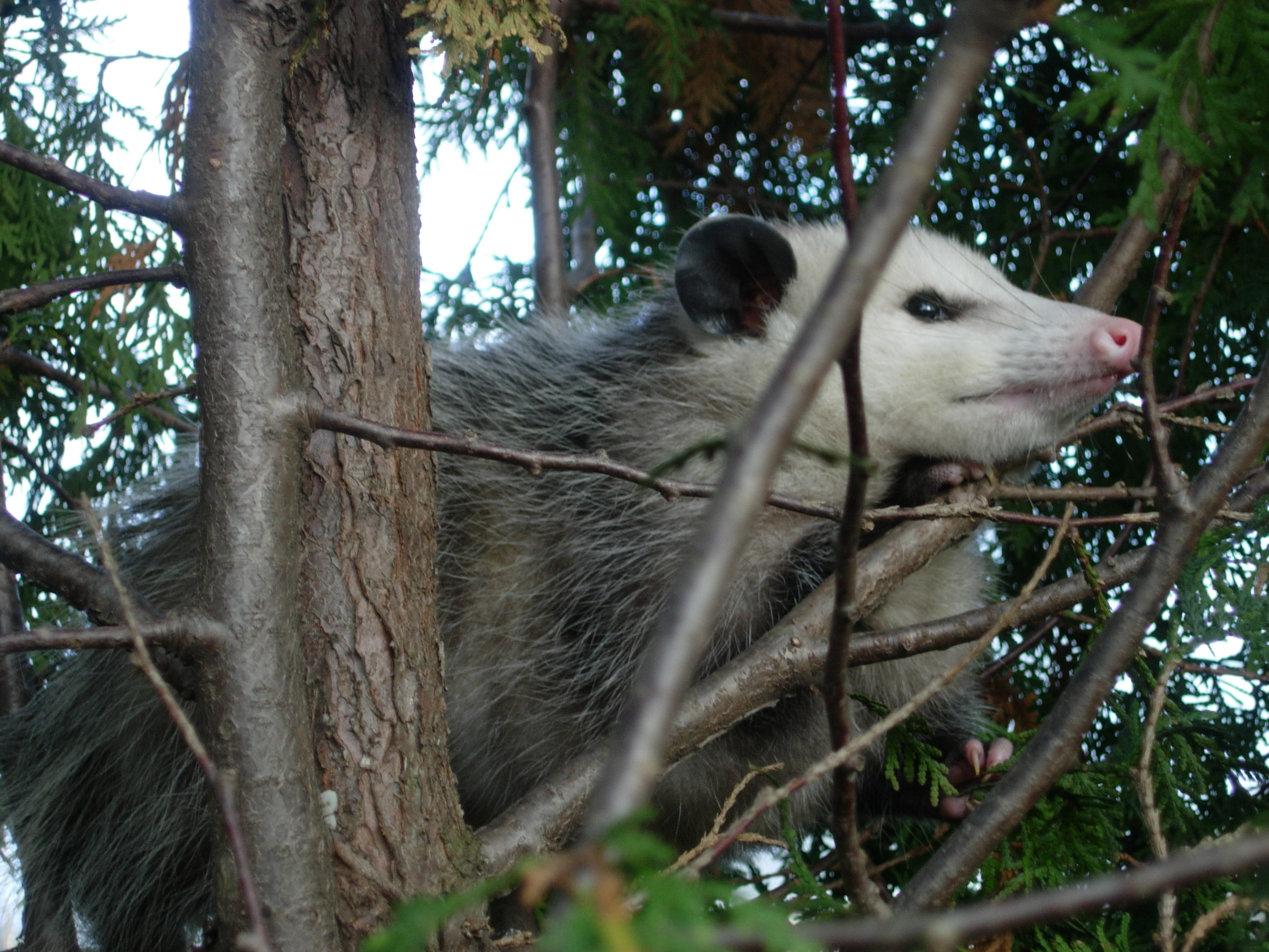 Virginia Opossum (Didelphis virginiana) in a juniper tree in northeastern Ohio.